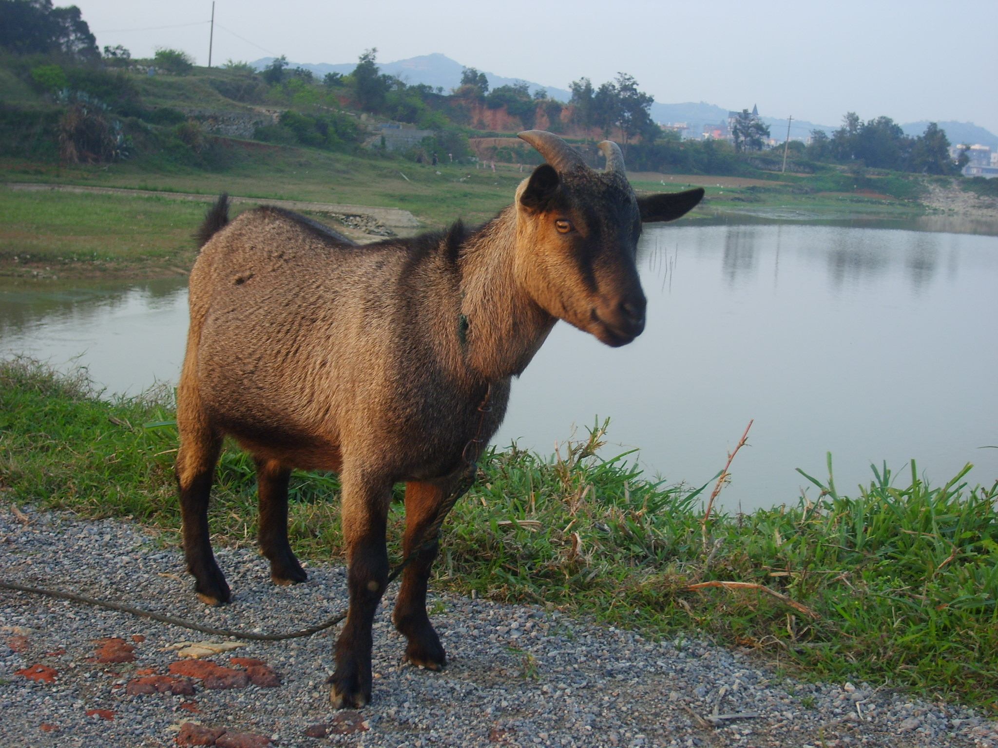 Fuqing Goat, a breed of goat in Fujian, China.